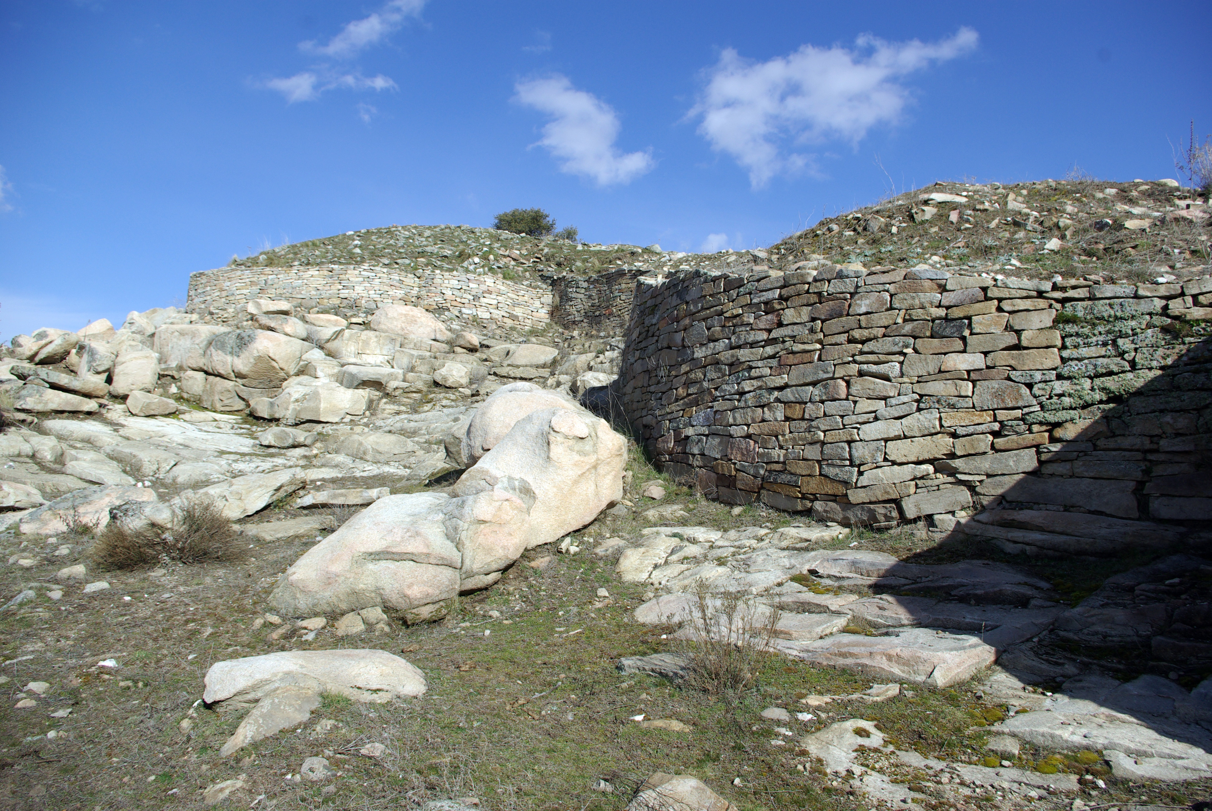 Hill fort of Las Cogotas, near Ávila (Ávila, Spain)